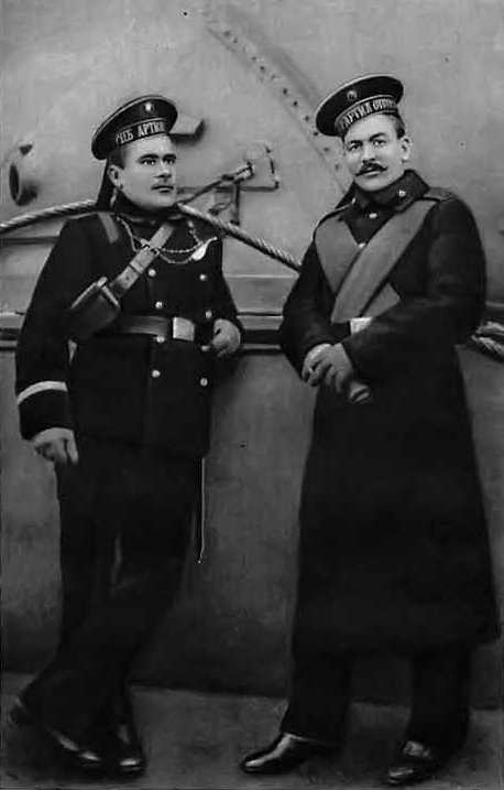 Z.A. Zakupnev and I.D. Sladkov